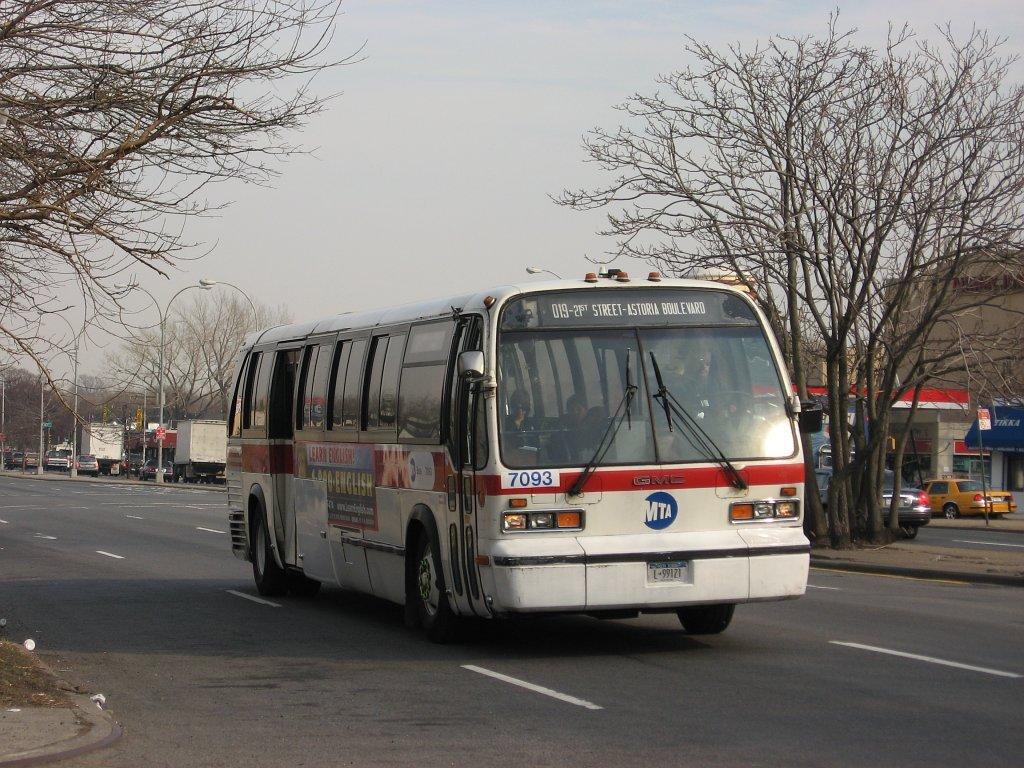 MTA Bus Company GMC RTS #7093 (ex-Triboro Coach 713) operates on the Q19 line in East Elmhurst, NY.